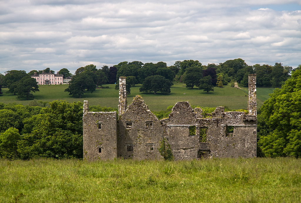 Castles of Munster: Dromaneen, Cork This is just part of a complex of buildings erected on a cliff overlooking the River Blackwater in the early 17c by Caher O'Callaghan. Due to a bull in the field, I was unable to get closer, but apparently this is the fortified house marked on the OS map. Another block apparently of three storeys, lies hidden in the trees.